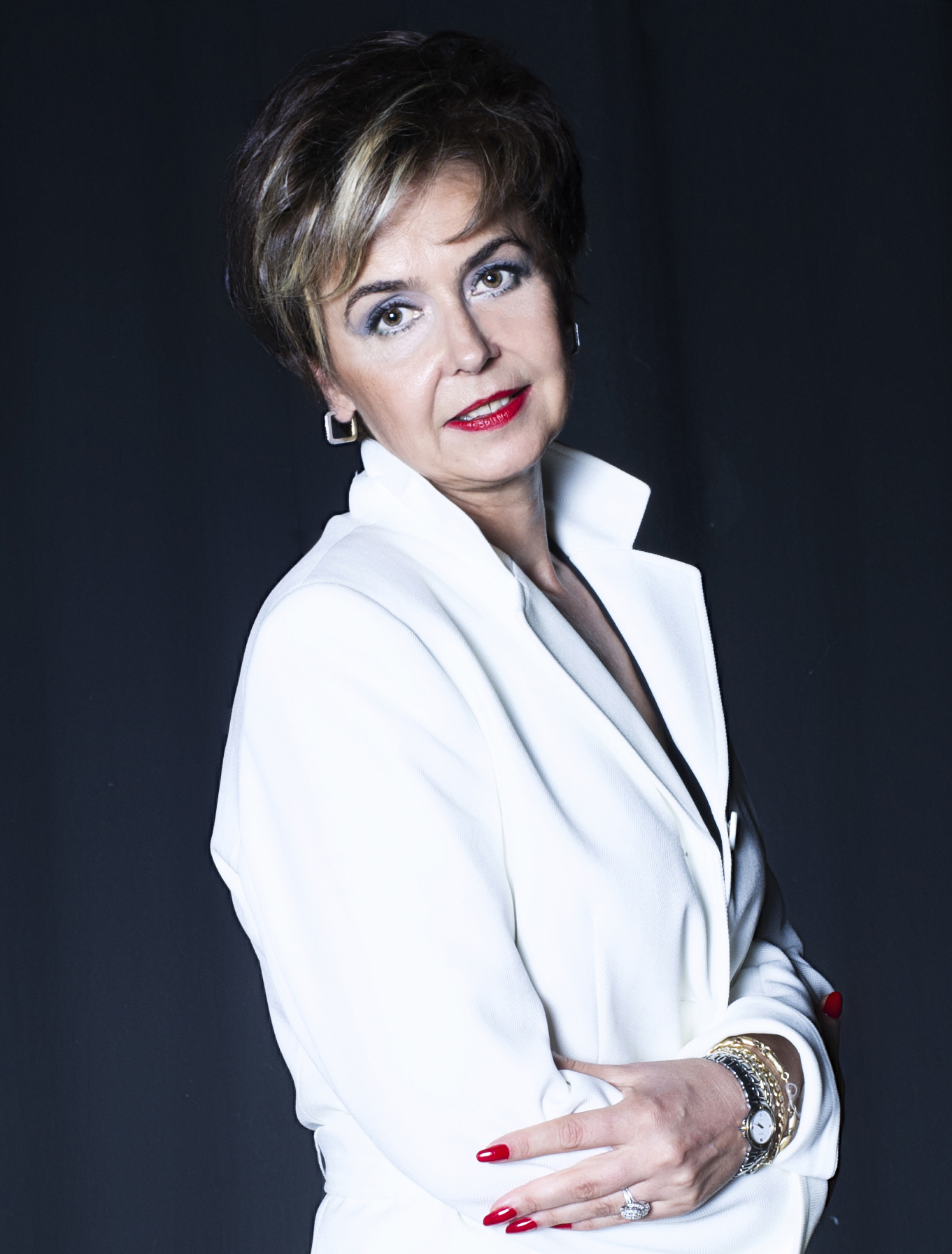 Dijana Toska